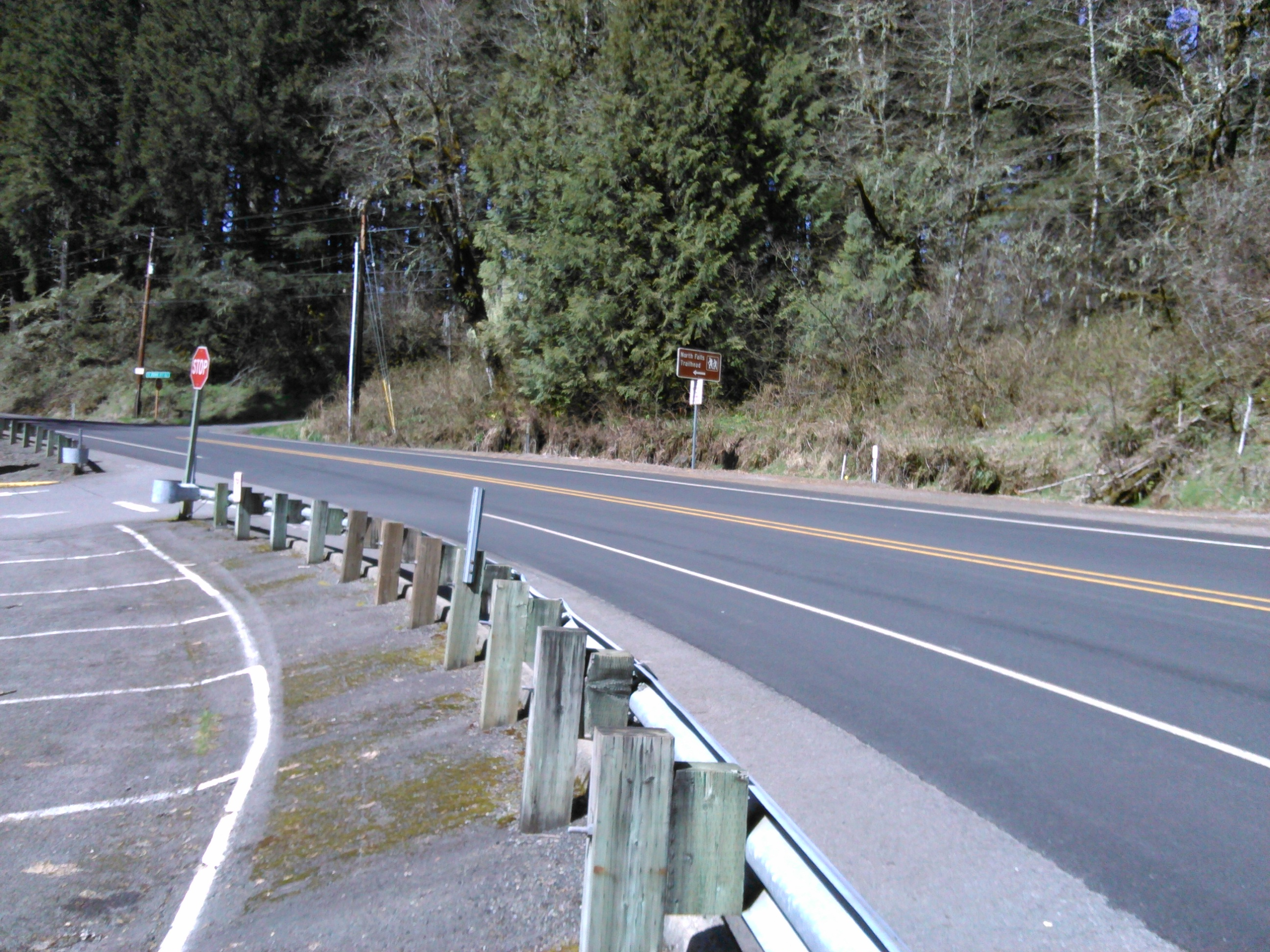 Oregon Route 214 at the North Falls Trailhead in Silver Falls State Park.